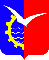 Severodvinsk (Arkhangelsk oblast), coat of arms (1970)